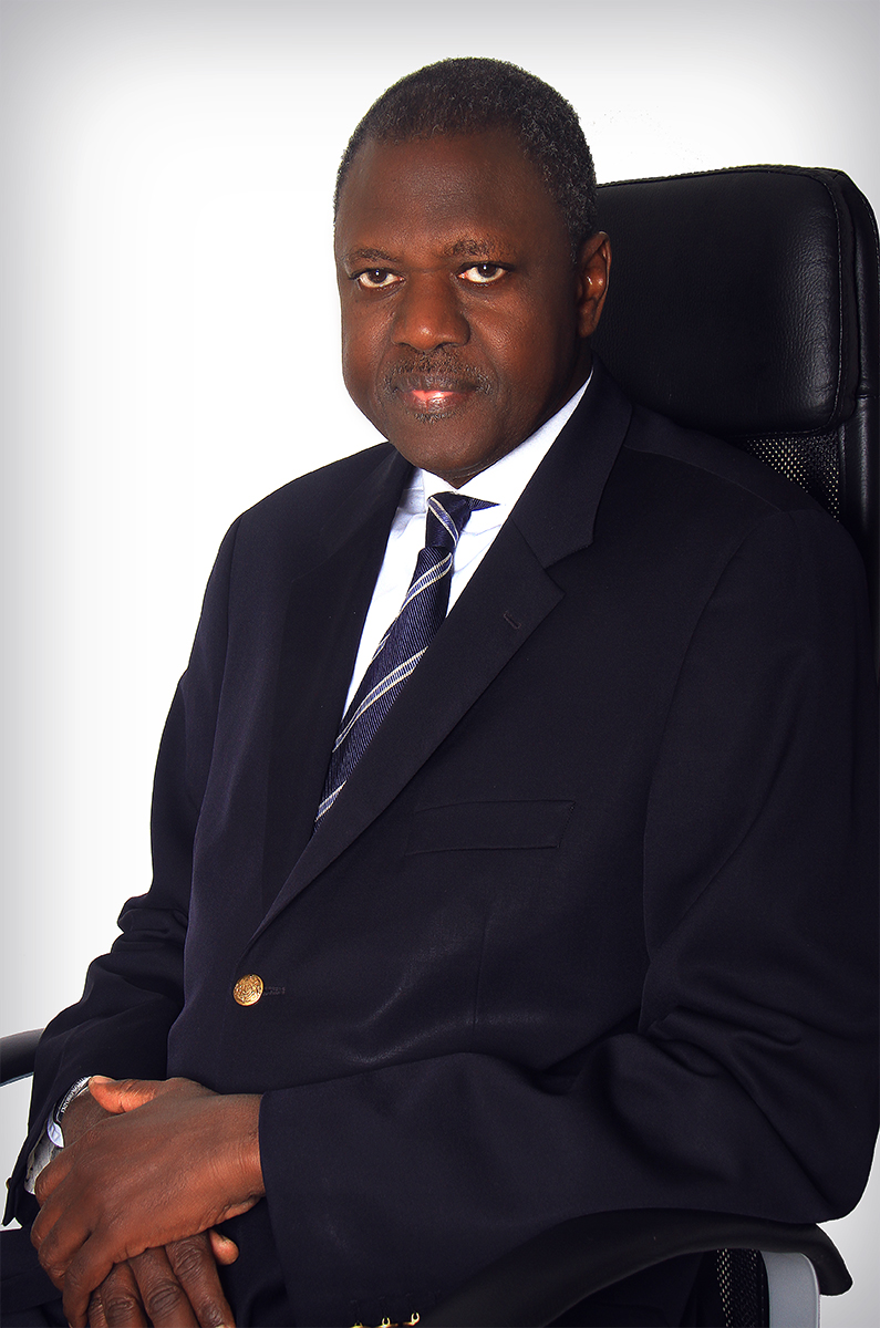 Portrait of Judge Tafsir Malick Ndiaye